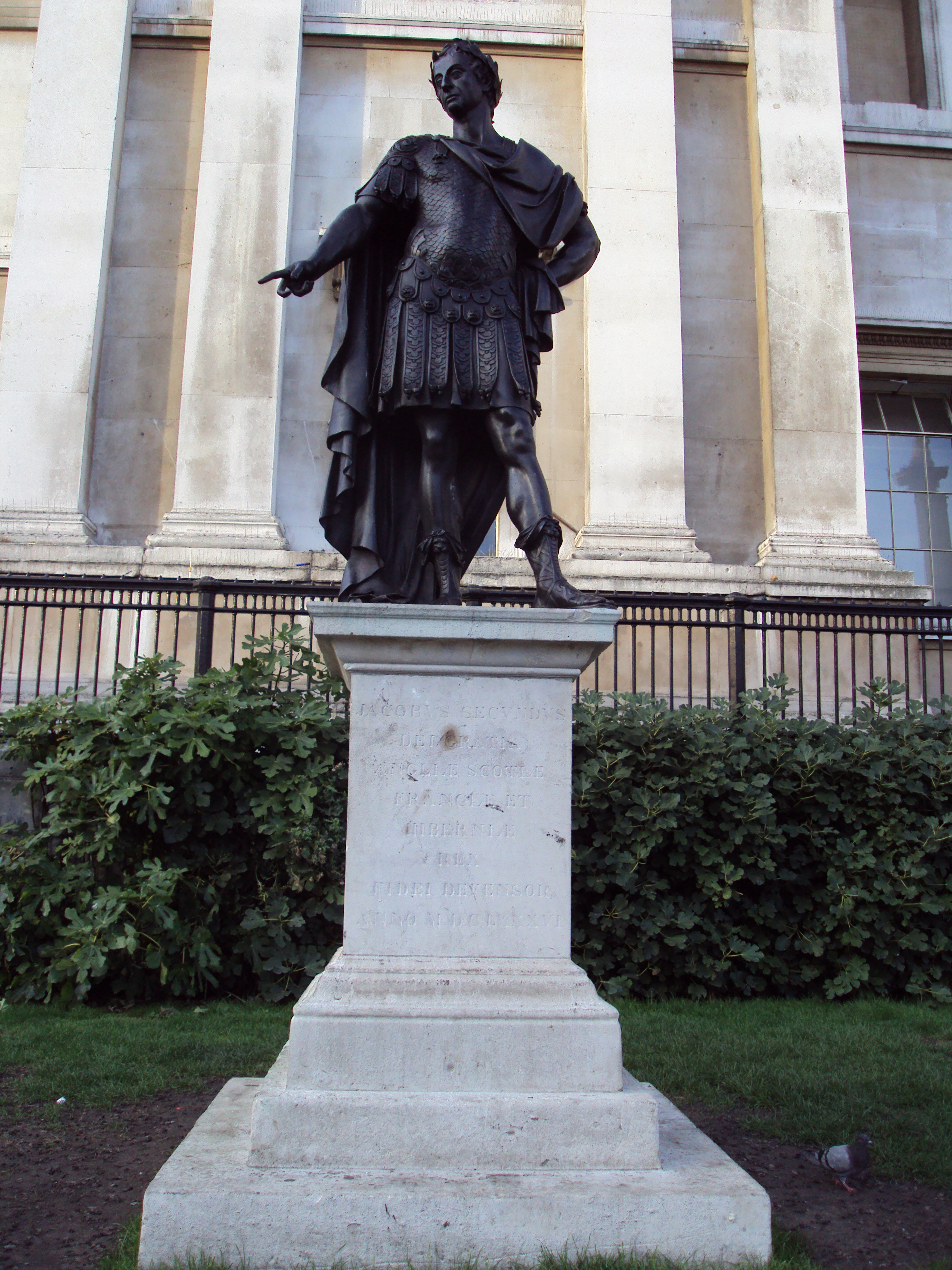 Statue of James II, outside the National Gallery, Trafalgar Square, London.